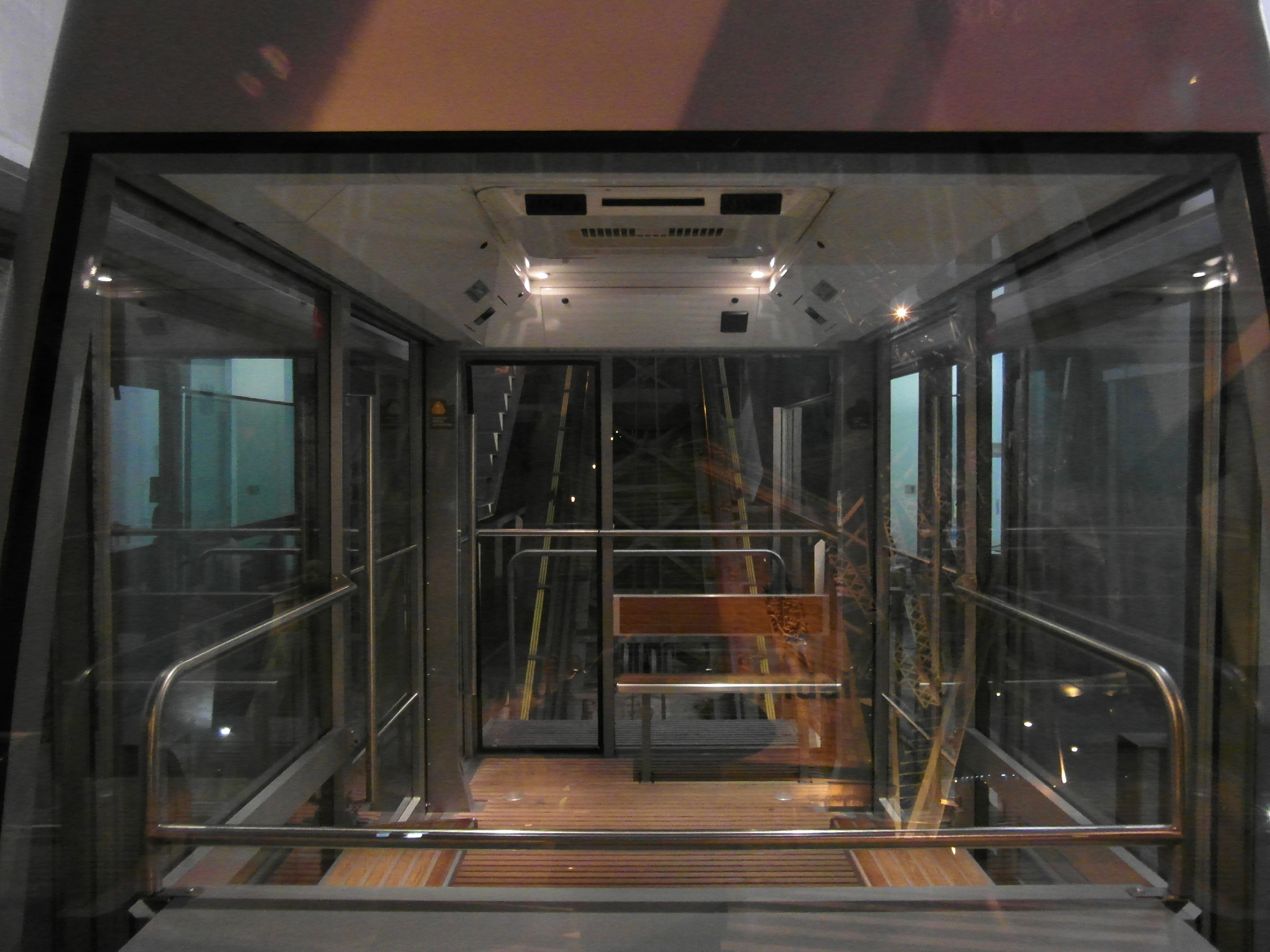 Standseilbahn - Funicular railway